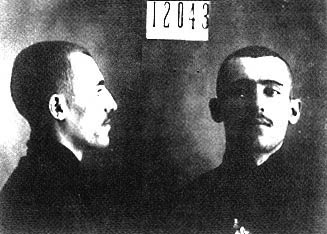 Police photograph of Simón Radowitzky.